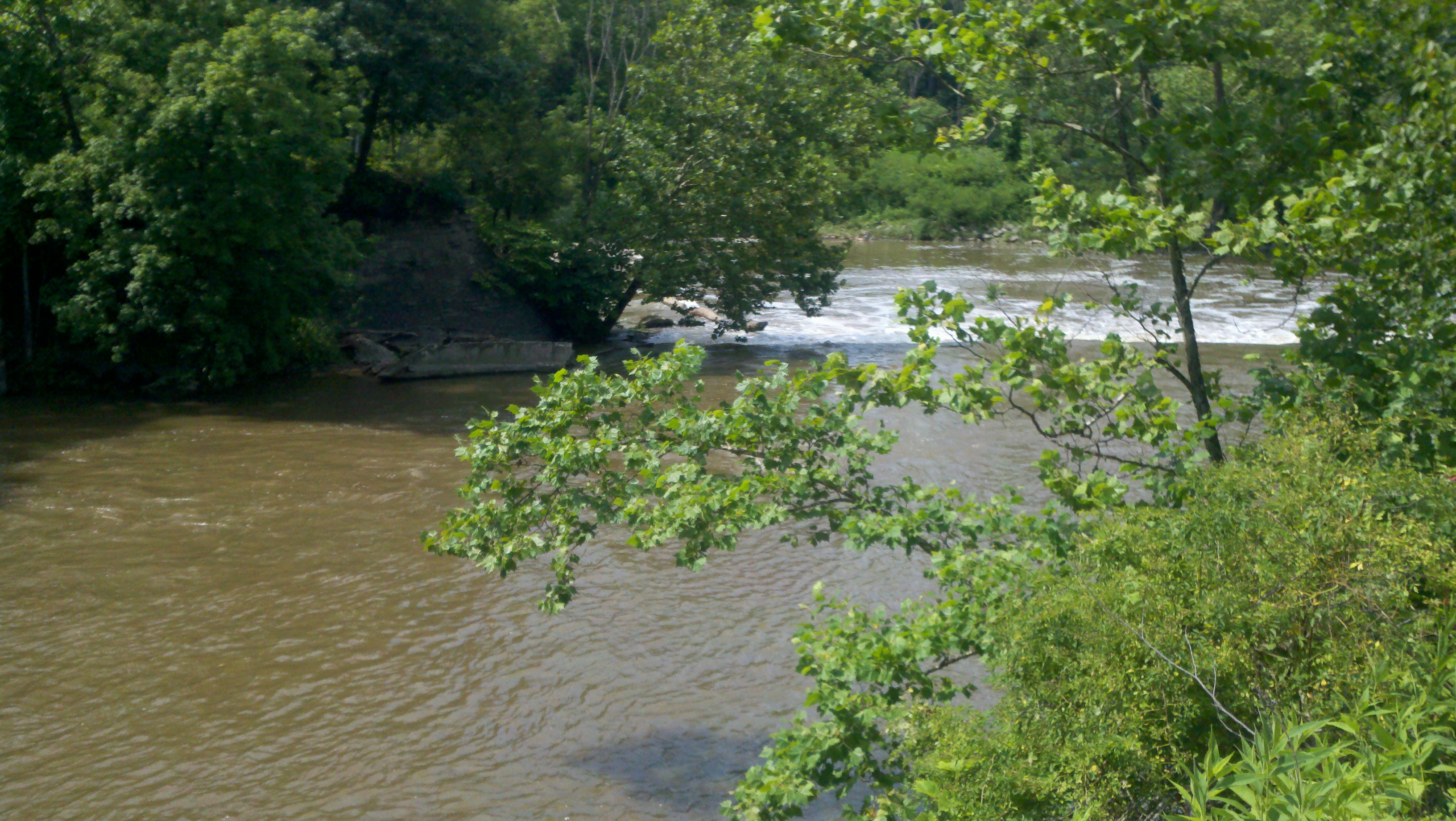 Looking down the Cuyahoga River in Peninsula, OH.